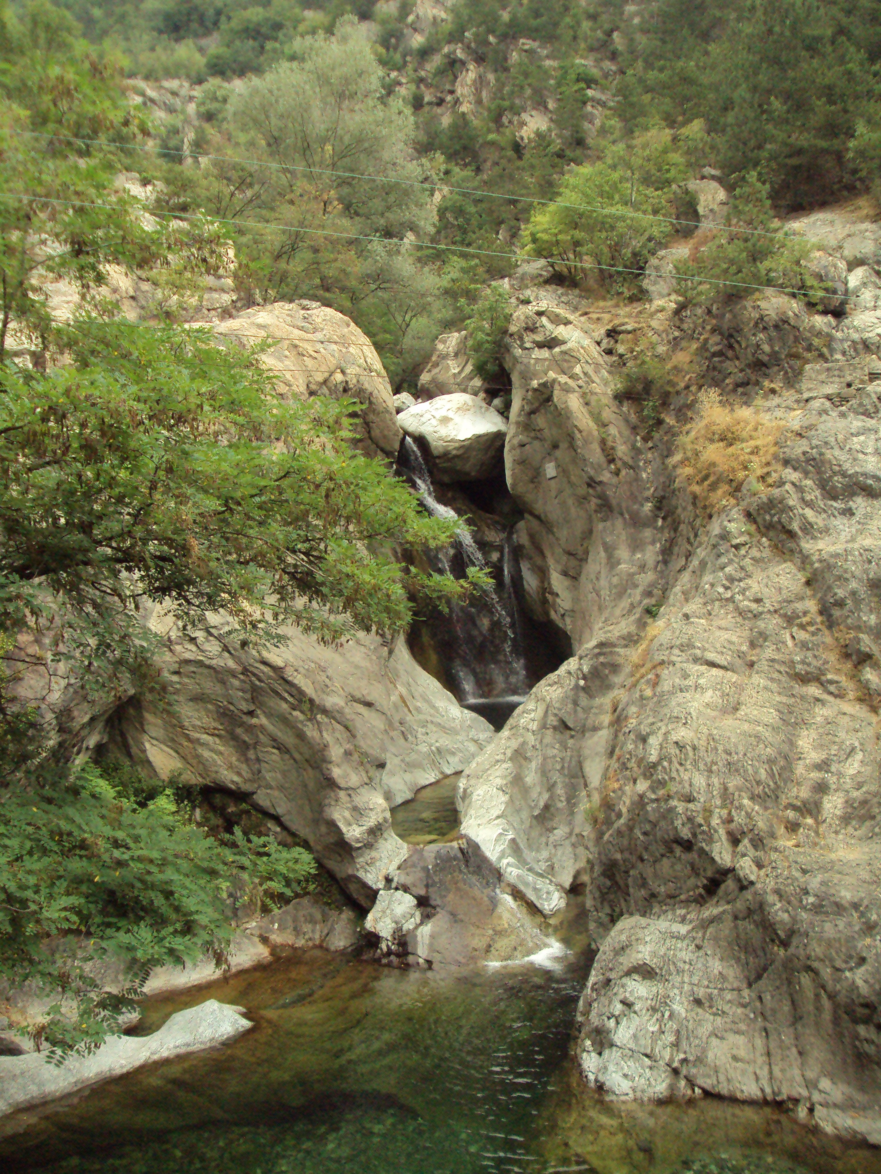 Hydroelectric power plant "Levski" in town Karlovo